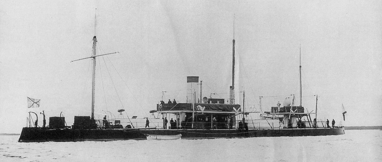 Imperial Russian twin turret armour-clad boat Smerch.